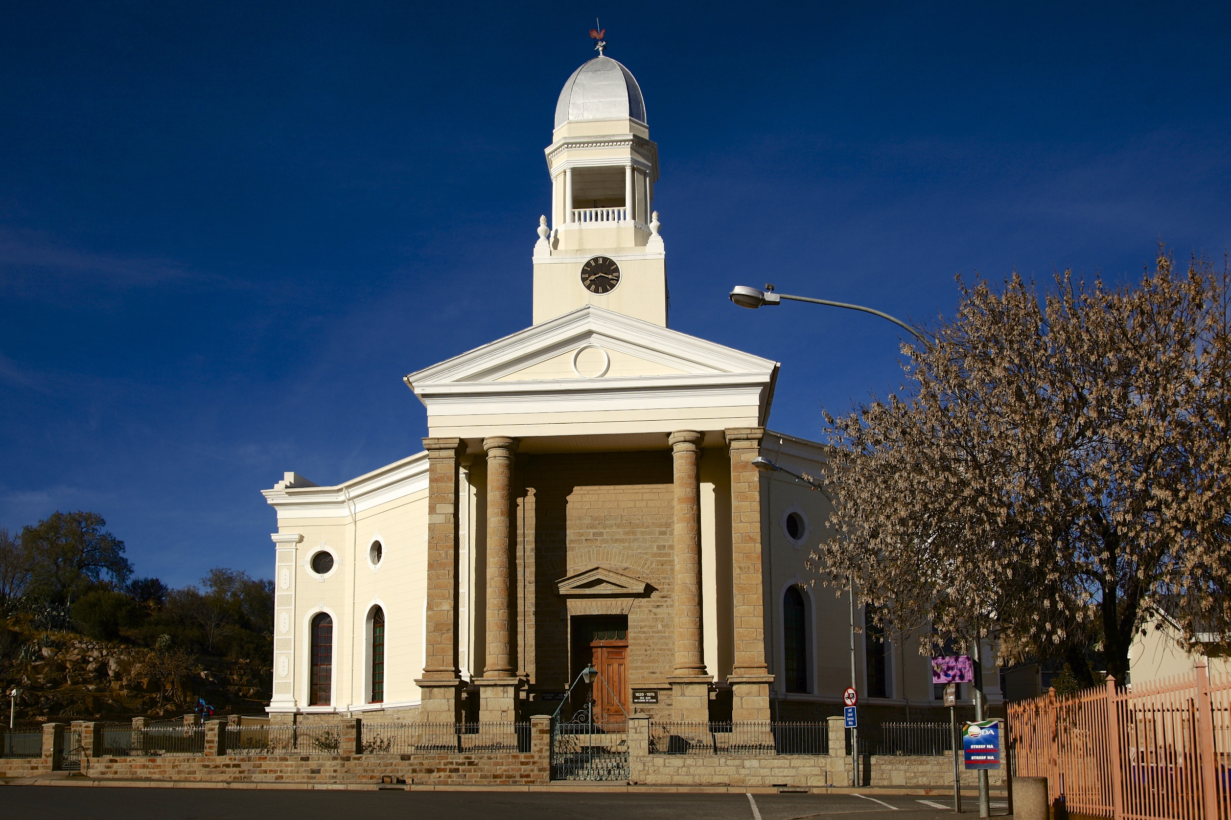 Dutch Reformed Church in Colesberg This media shows a South African Protected Site with SAHRA file reference 9/2/023/0005.